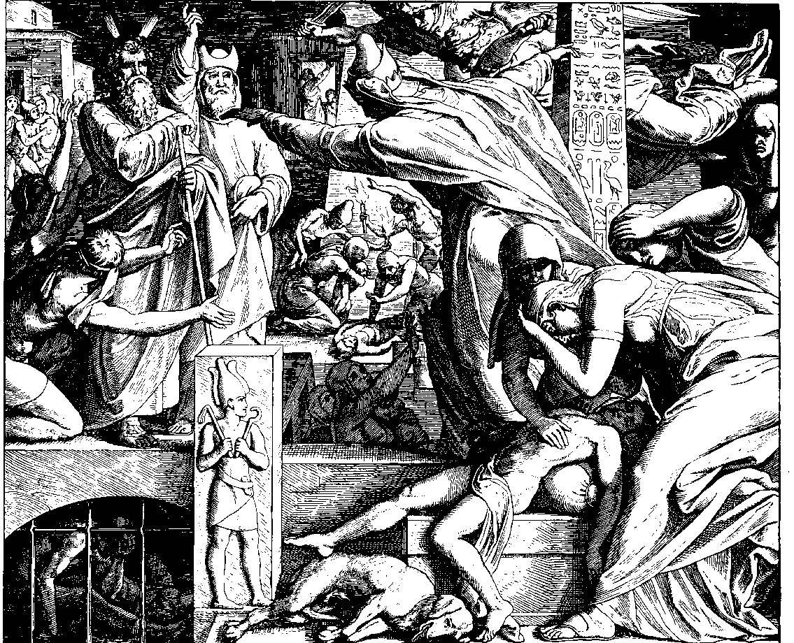 Woodcut for "Die Bibel in Bildern", 1860.